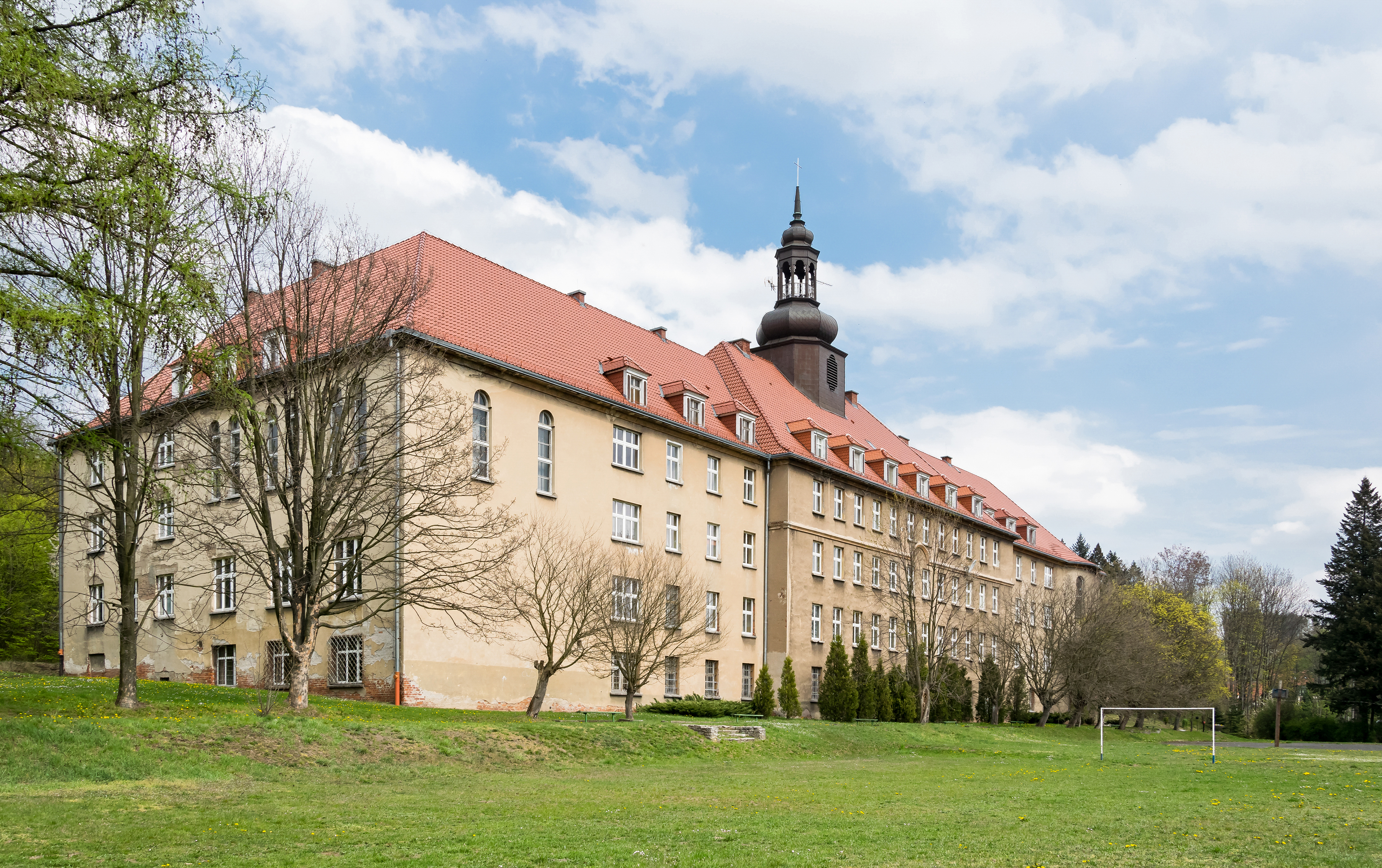 Monastery of the Congregation of the Sisters of Mary Immaculate in Bardo Dane na ten temat są gromadzone w Wikidanych pod numerem Q30084114.